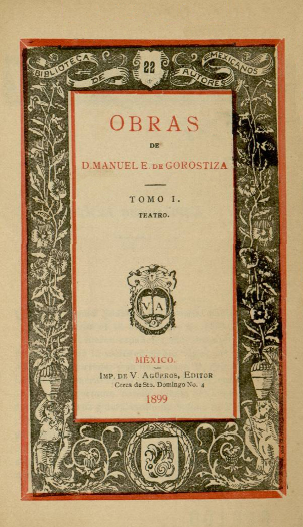 Bookcover Works D Manuel Eduardo de Gorostiza in 1899